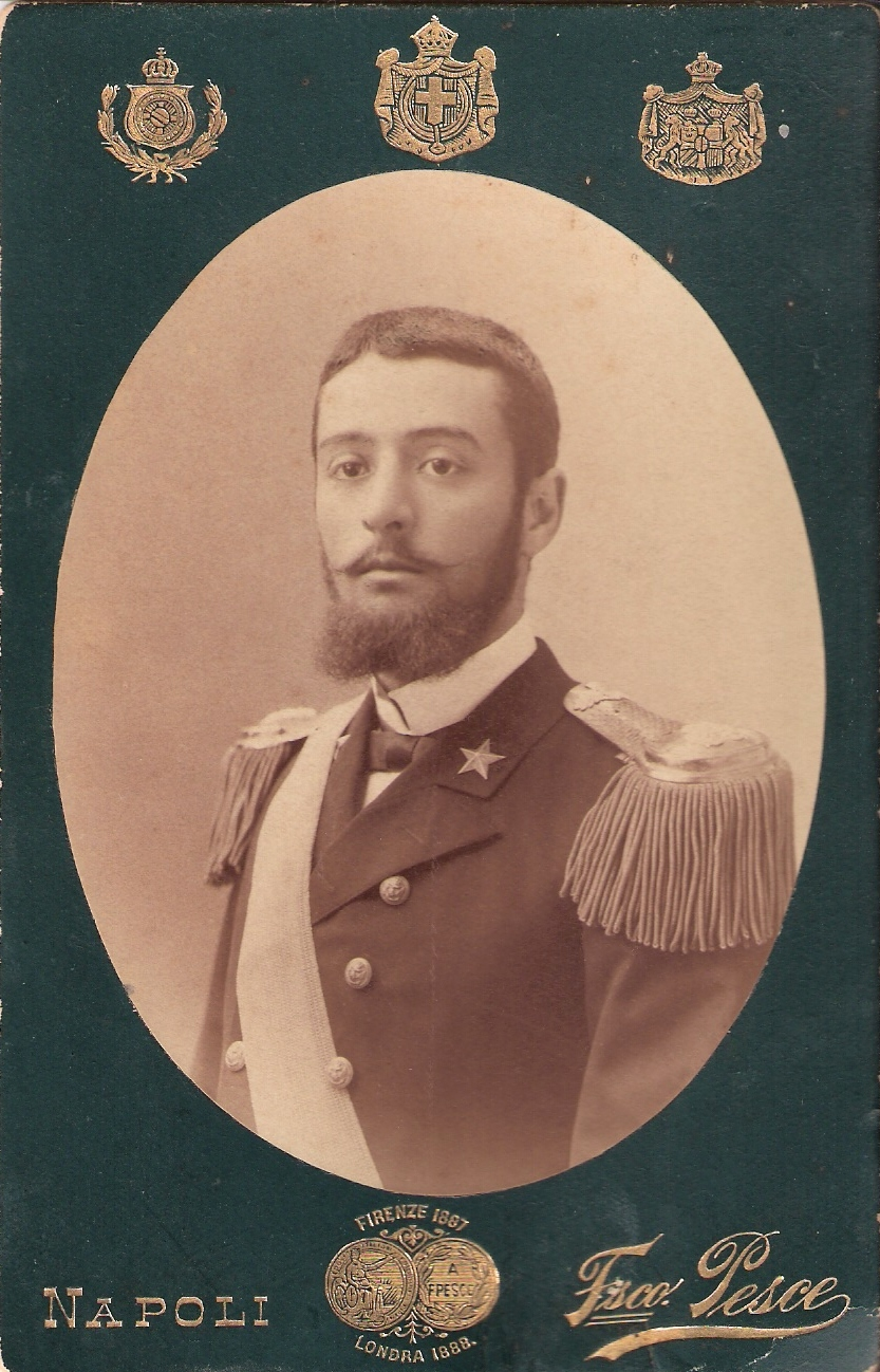 Italian admiral Ernesto Burzagli (1873-1944) as a young man, around 1895. The original picture, scanned by Emiliano Burzagli, belongs to the Private archive of Burzaghi family, Italy.